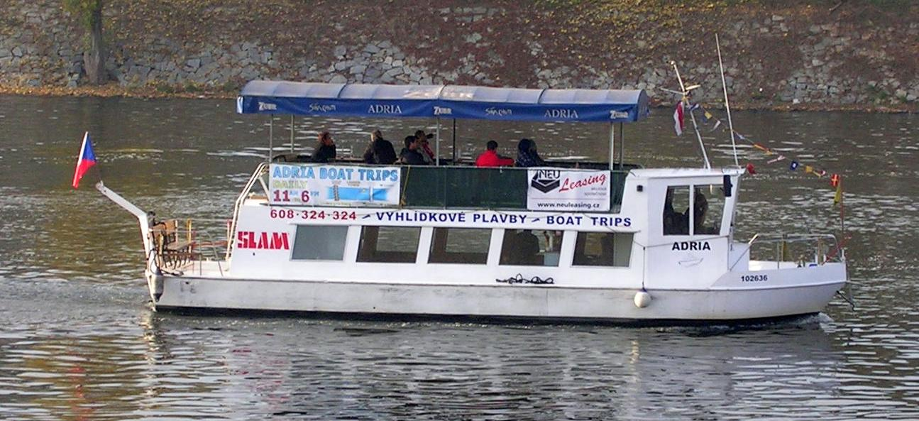 Prague. Adria Boat.